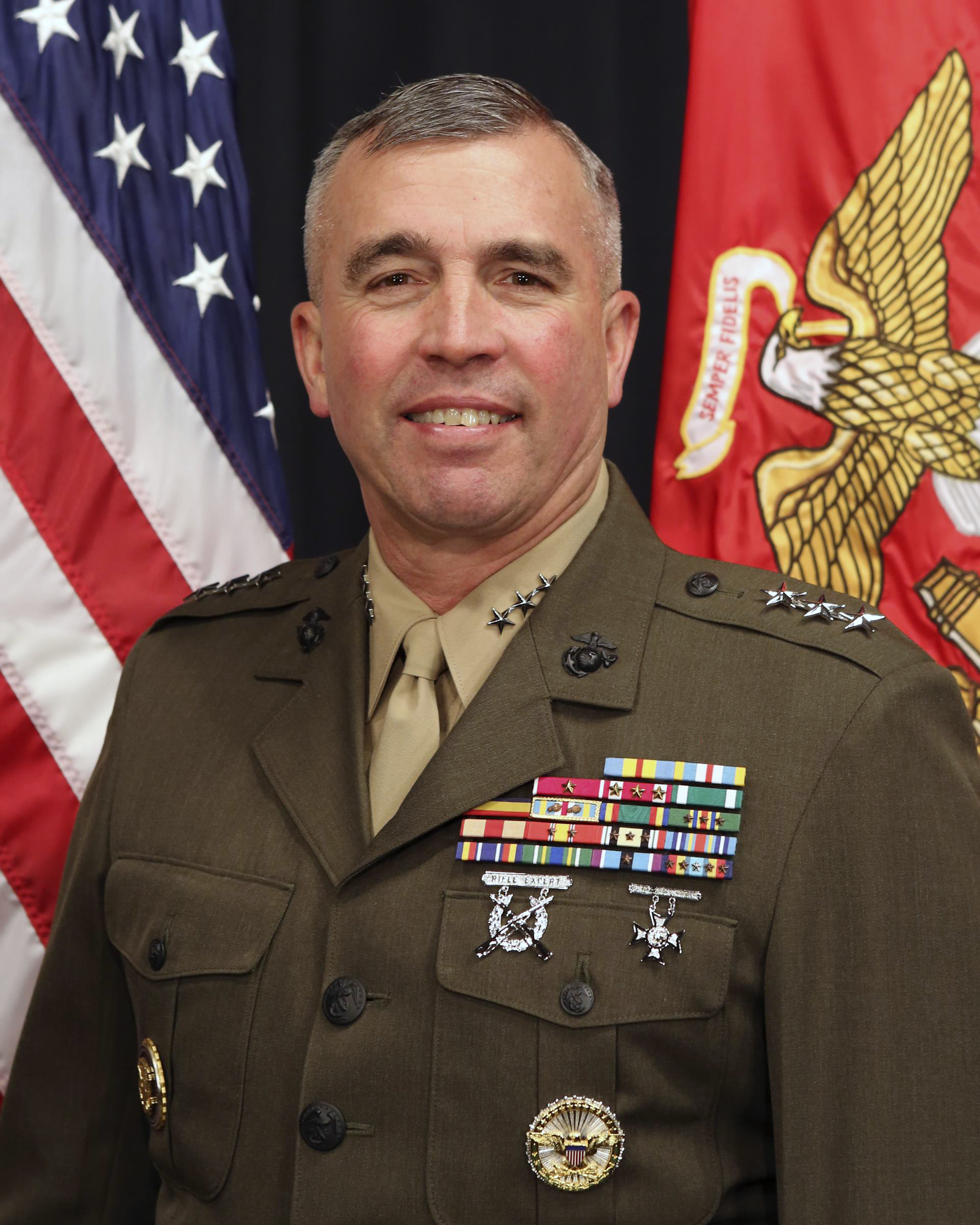 Commanding General, III Marine Expeditionary Force; and Commander, Marine Forces Japan